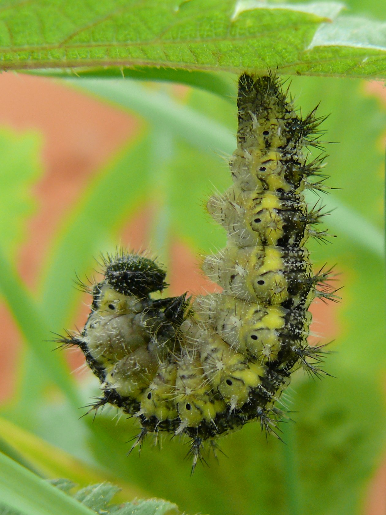 Small Tortoiseshell - prepupa